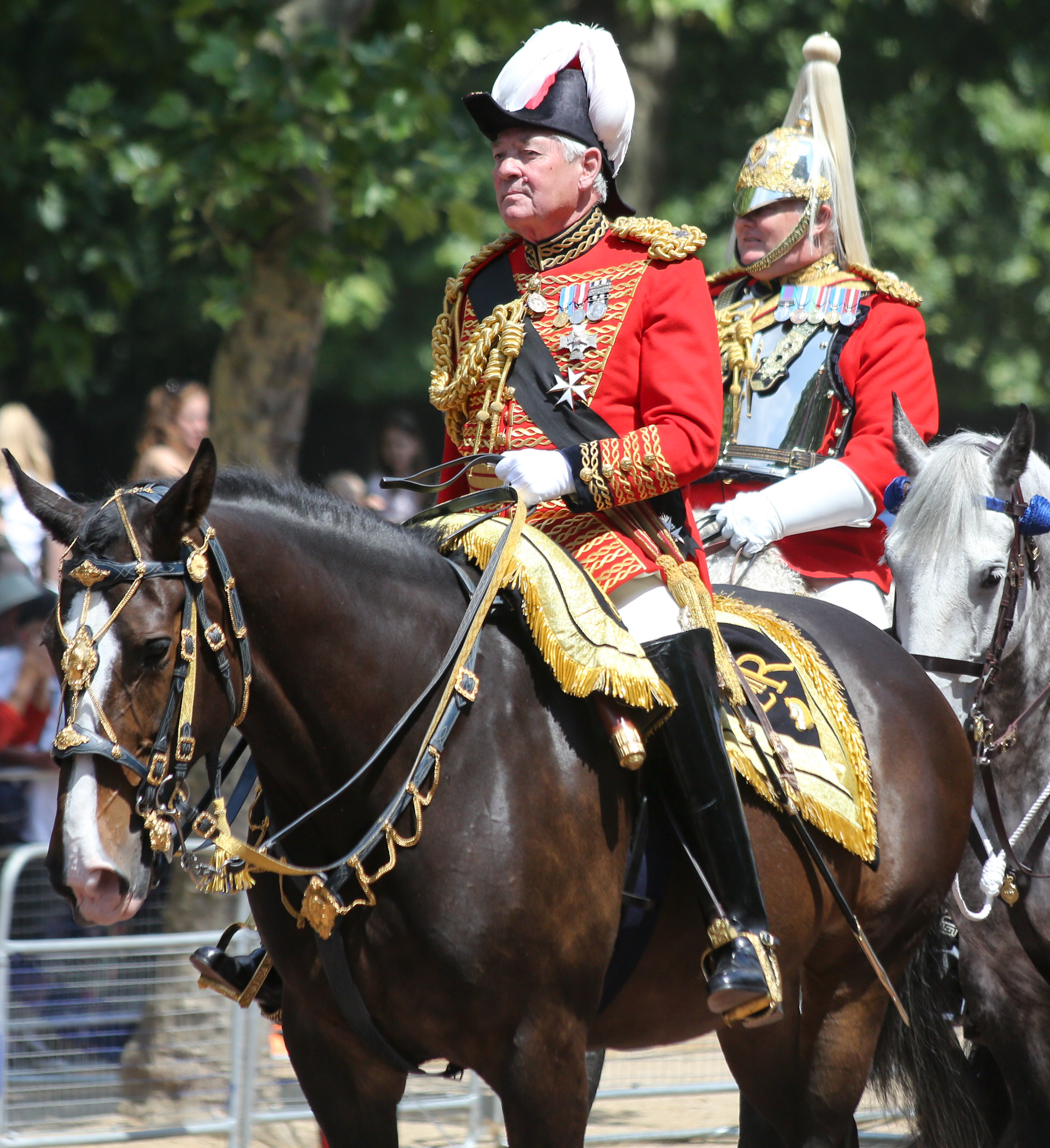 Master of the Horse Samuel Vestey, 3rd Baron Vestey followed by Regimental Adjutants of the Household Division at the rear of the sovereign procession.